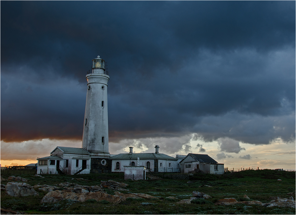 This media shows a South African Protected Site with SAHRA file reference 9/2/044/0004.